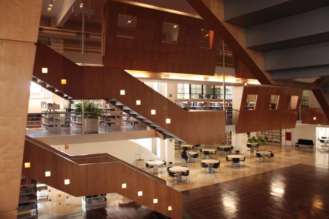 Library